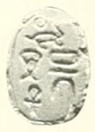 Scarab of pharaoh Sheneh, second intermediate period, now in the British Museum